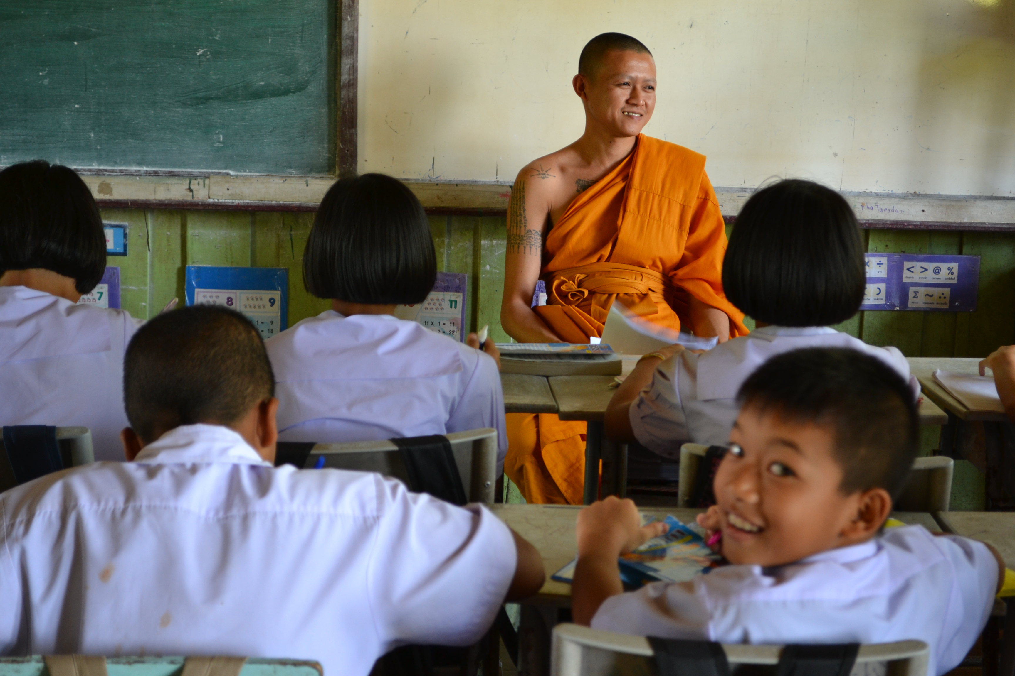 student in Ban Hua Hat School in Wat Pa Kanun, Khung Taphao subdistrict, Mueang Uttaradit, Uttaradit Province, Thailand.